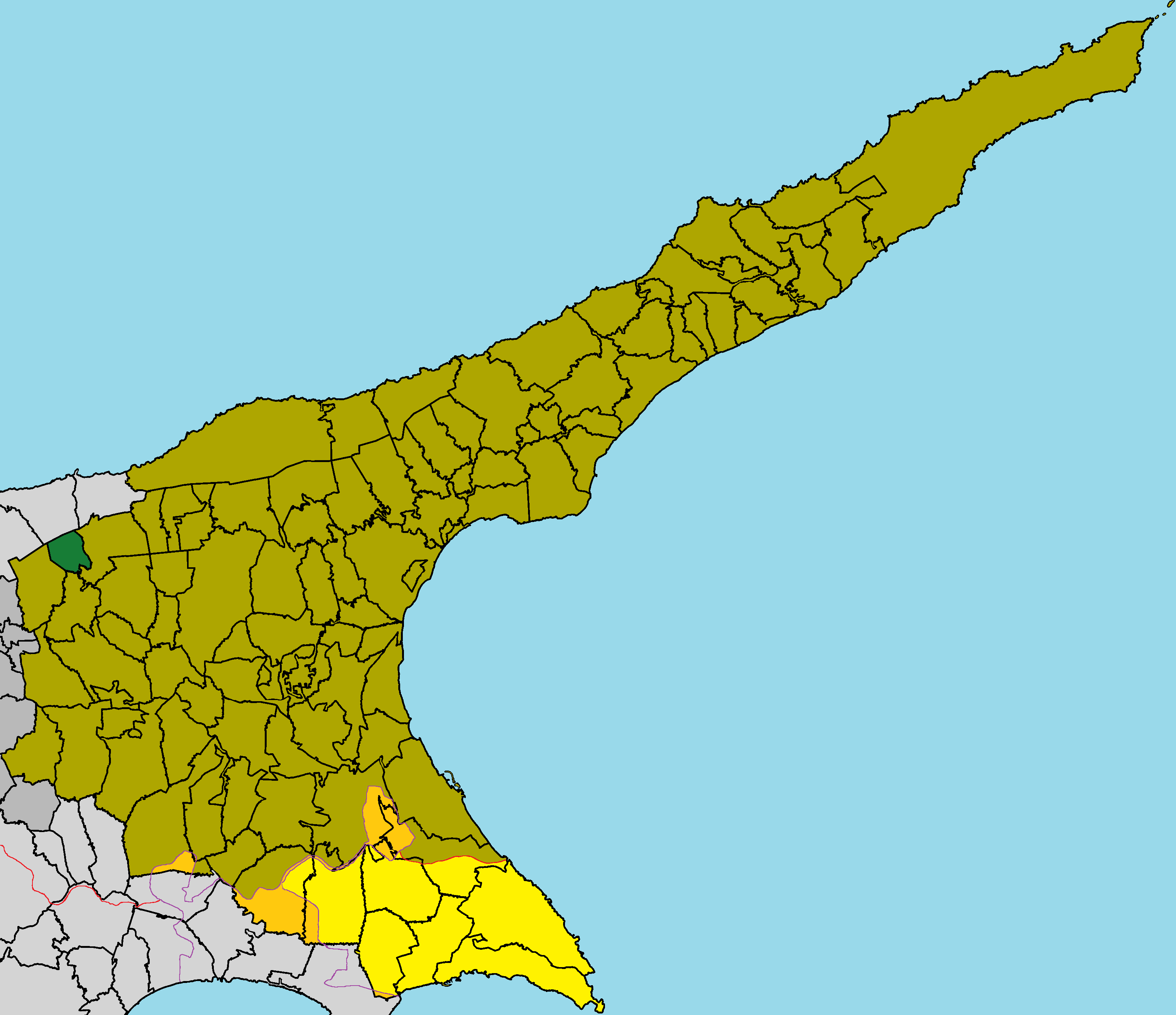 Agios Chariton in Famagusta District (de jure).